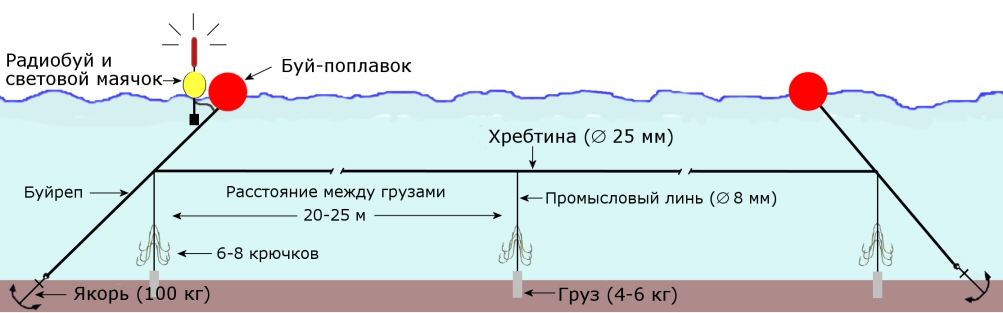 Longline: bottom trotline